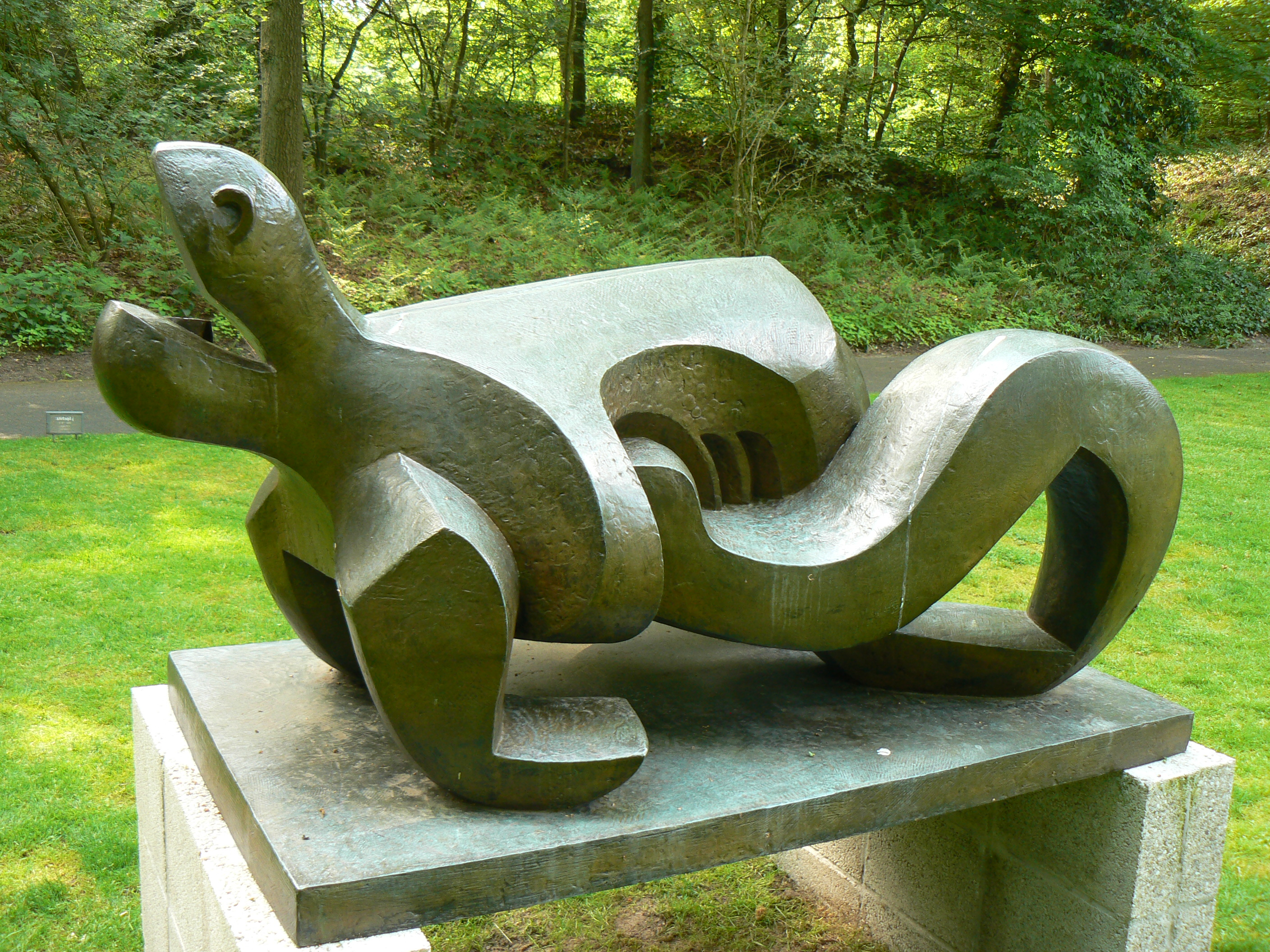 sculpture Le cri (le couple) (1928/9) by Jacques Lipchitz in KMM Sculpturepark/The Netherlands